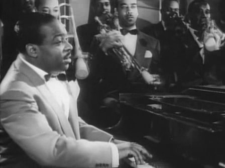 Cropped screenshot of Count Basie from the film Stage Door Canteen.